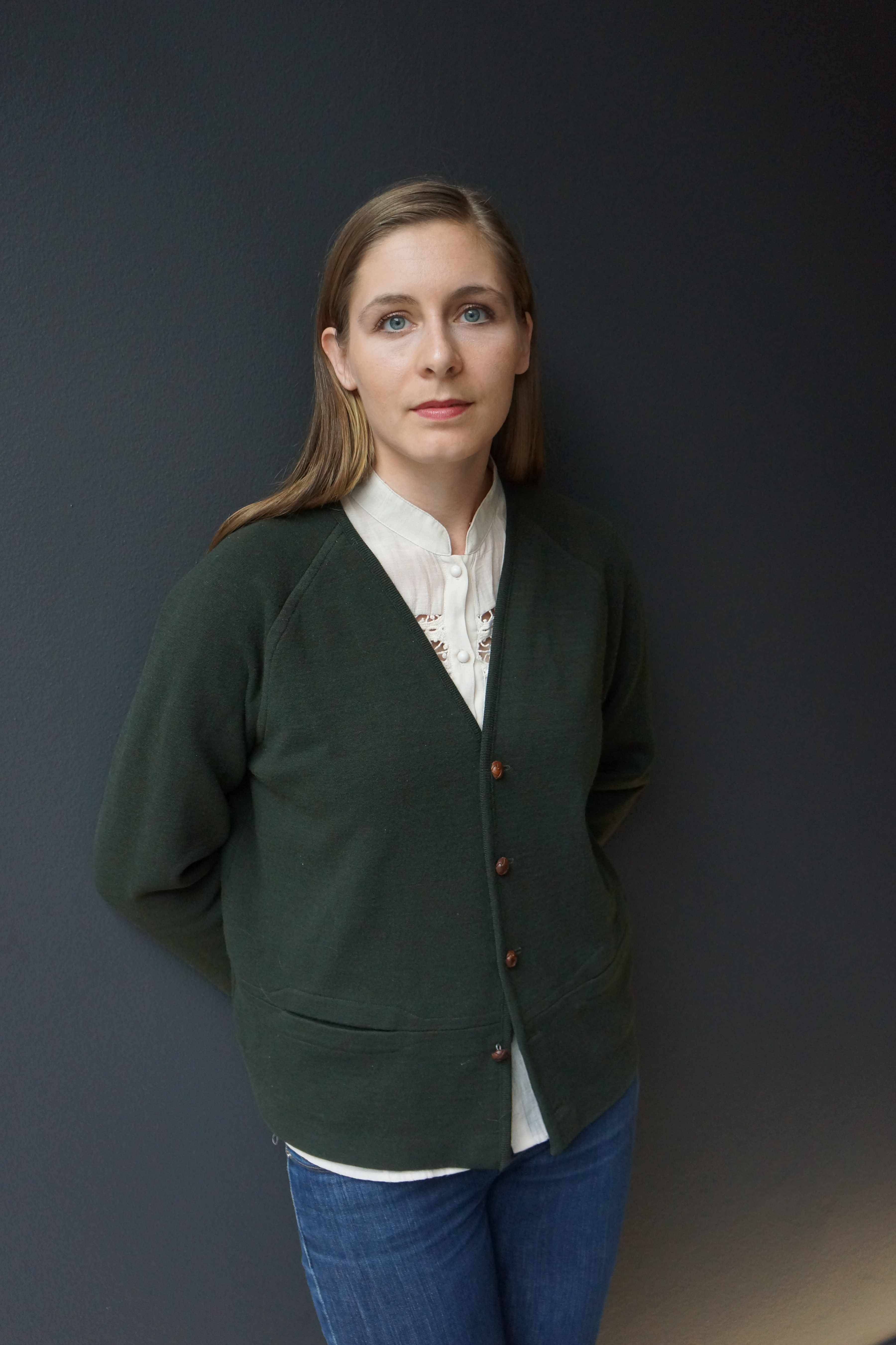 Eleanor Catton in Frankfurt in October 2012.